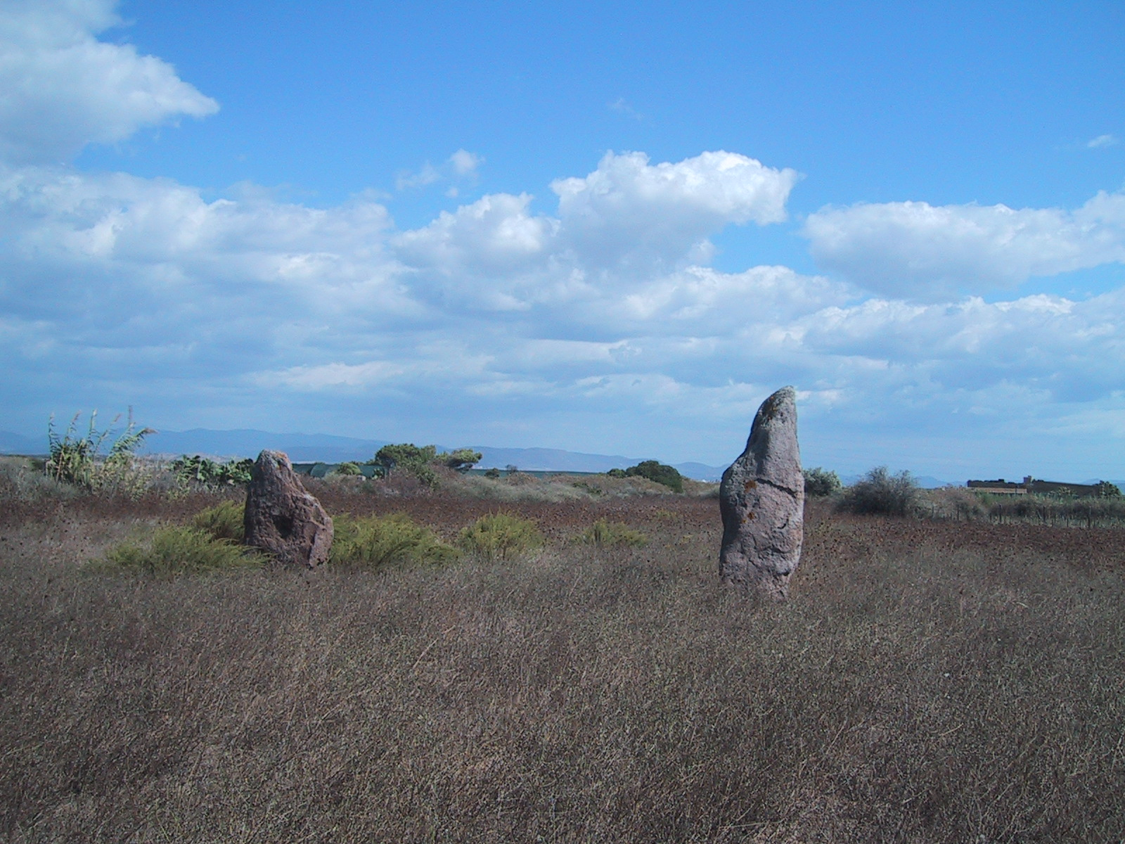 Menhire Su Para e sa Mongia on Sardinia near Sant'Antioco